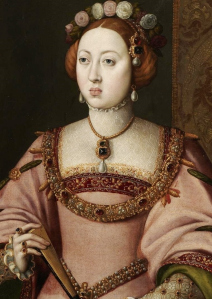 Maria Manuela of Portugal, princess of Asturias and duchess of Milan